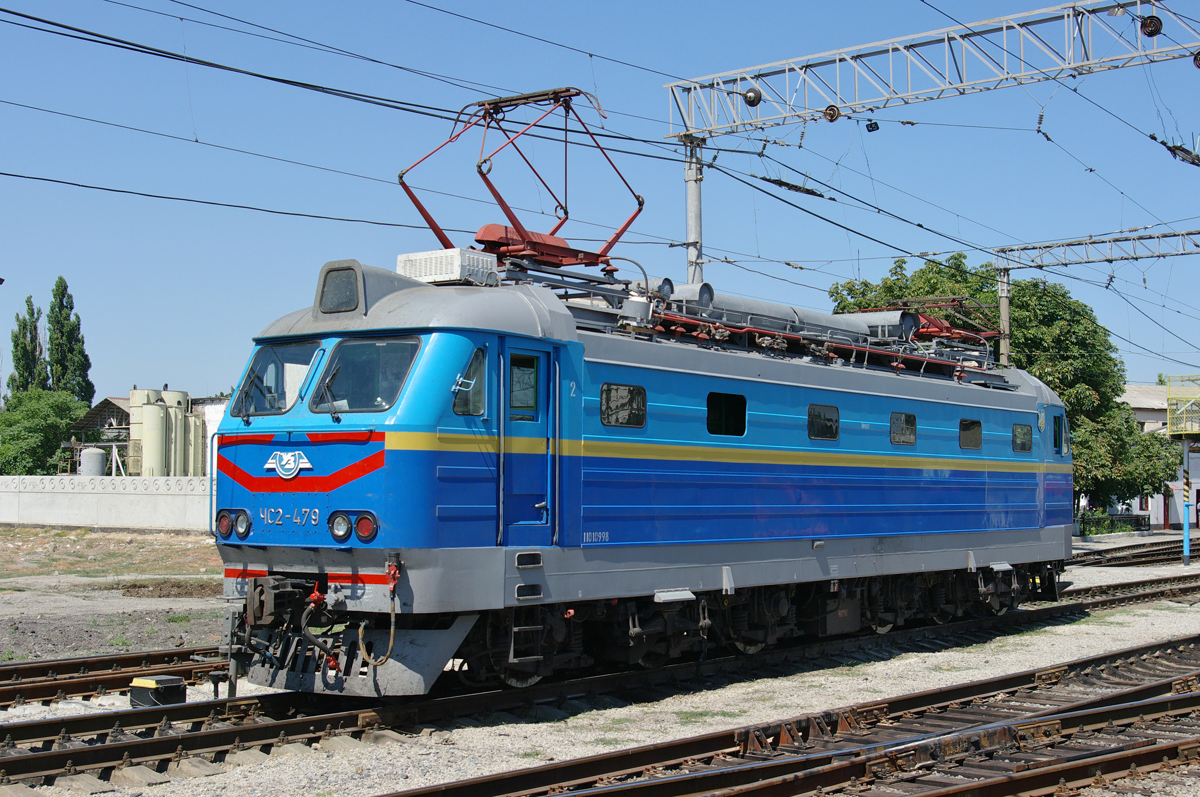 Electric locomotive ChS2-479